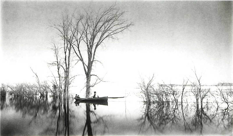 "Spring Flood on the St. Lawrence", photo by Alexander Henderson (1865)